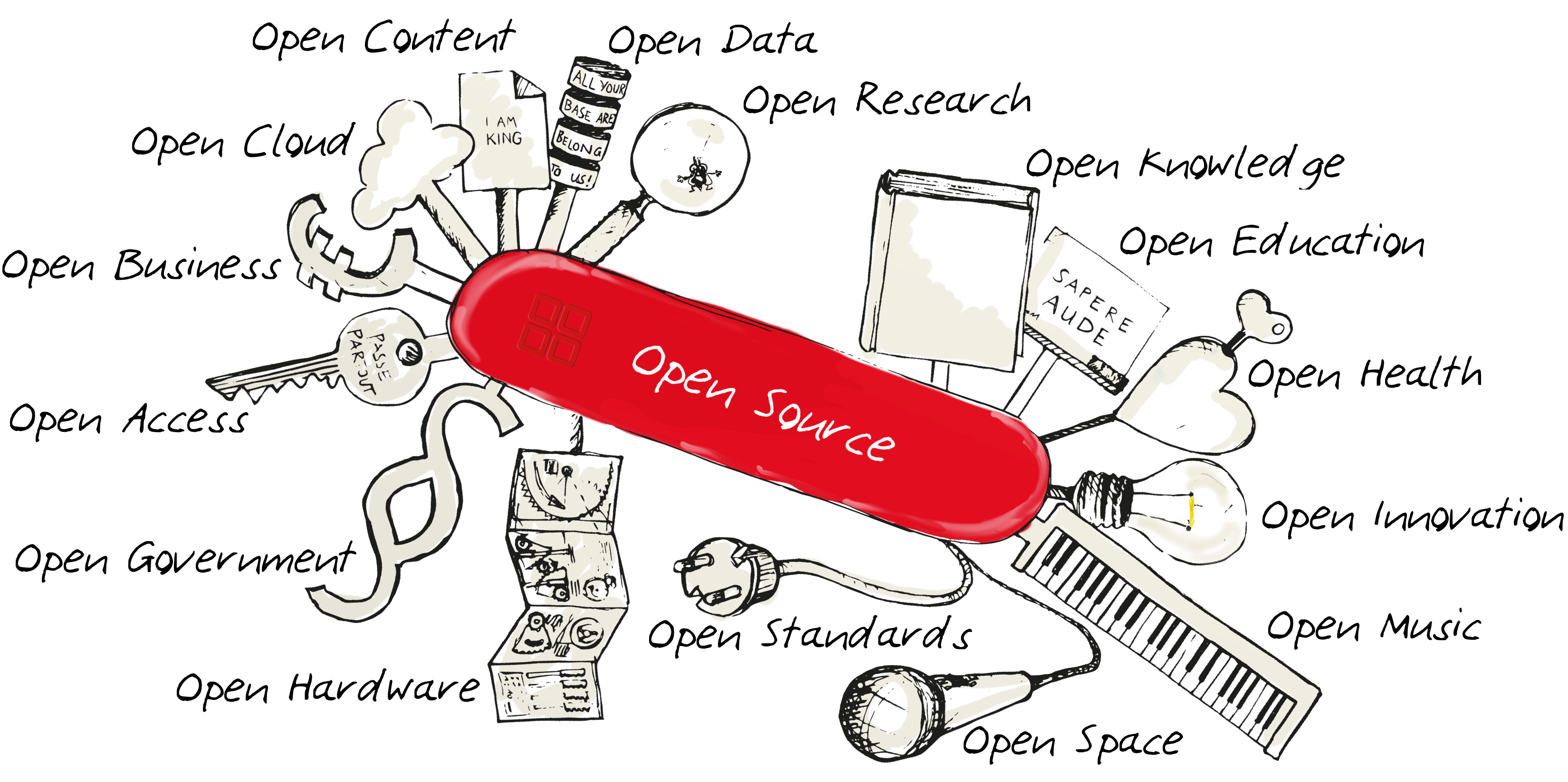 Open Source "Swiss Knife" showing relevant Open movements based on Open Source principles - illustration by Open Source Business Foundation